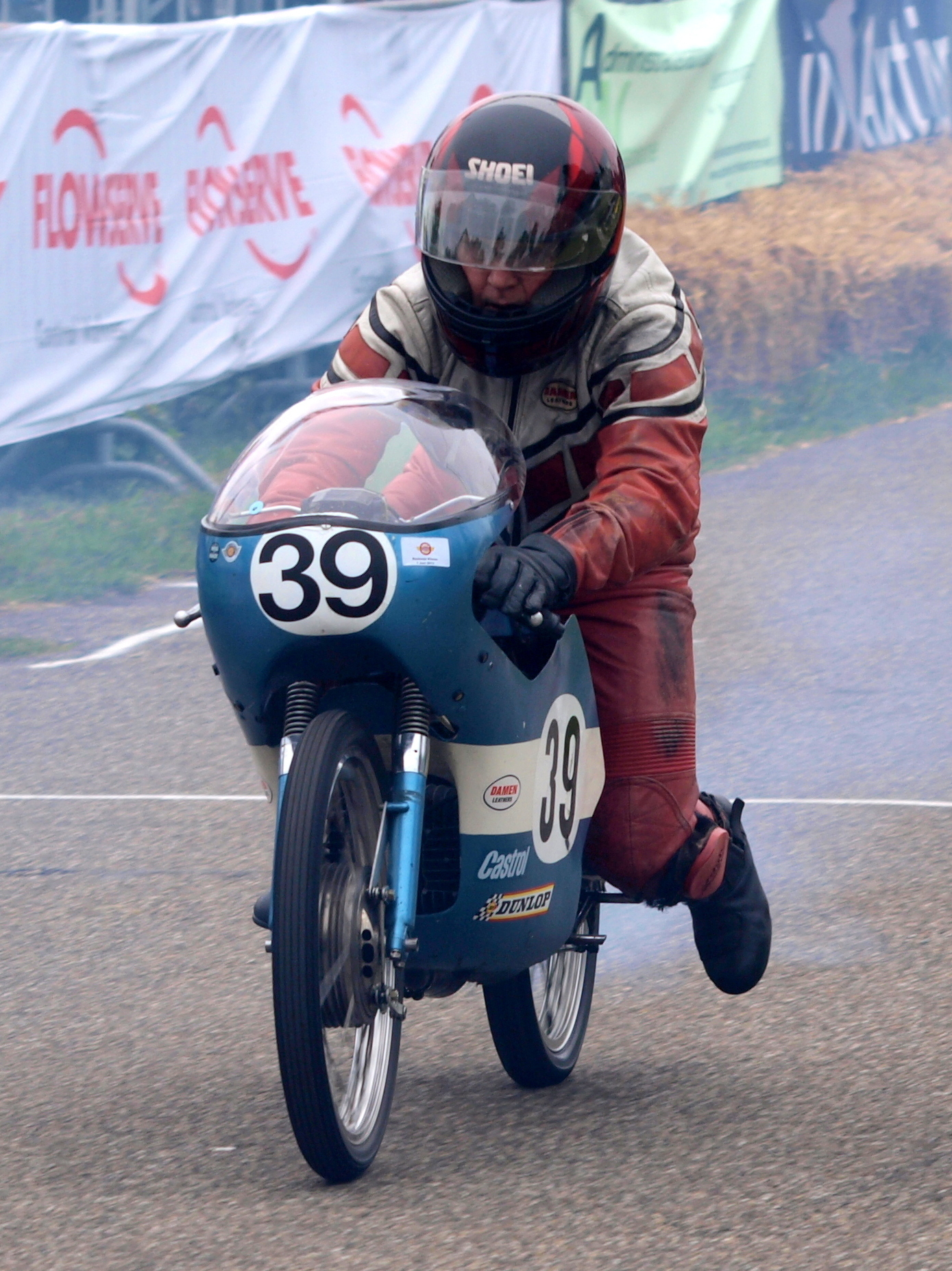 Photographed at Rockanje, The Netherlands.